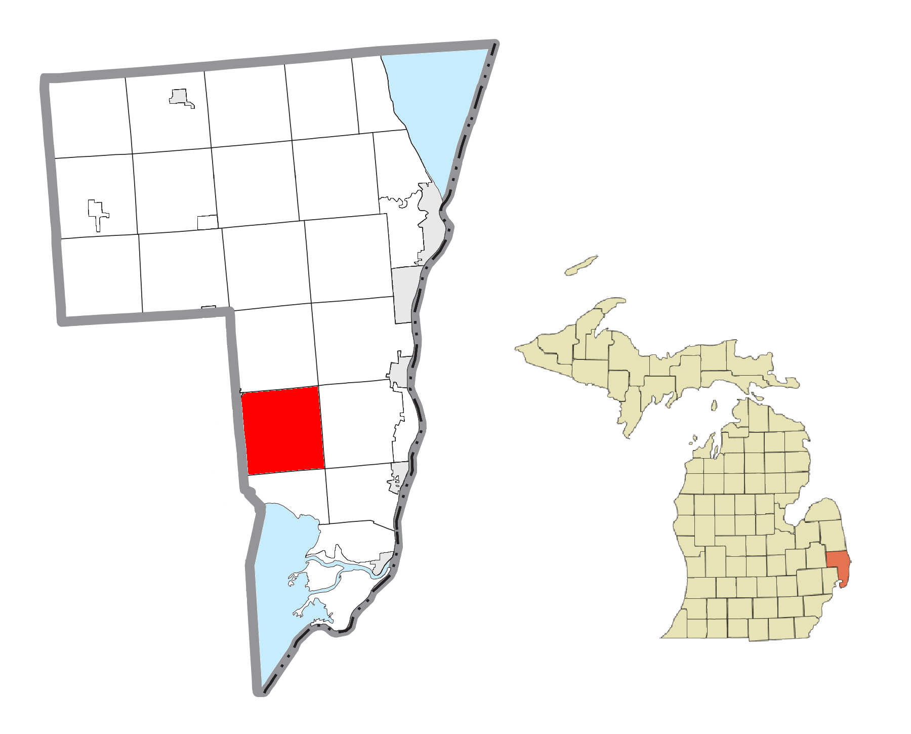 Casco Township (St. Clair), MI